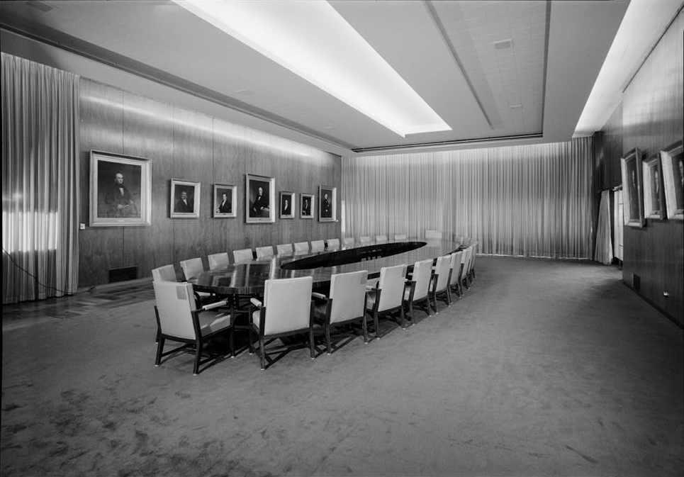 Looking at the Boardroom of the 33rd Floor of the PSFS Building, Looking northwest. Cropped from original.